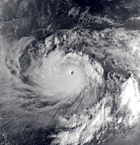 Super Typhoon Gay on November 20, 1992